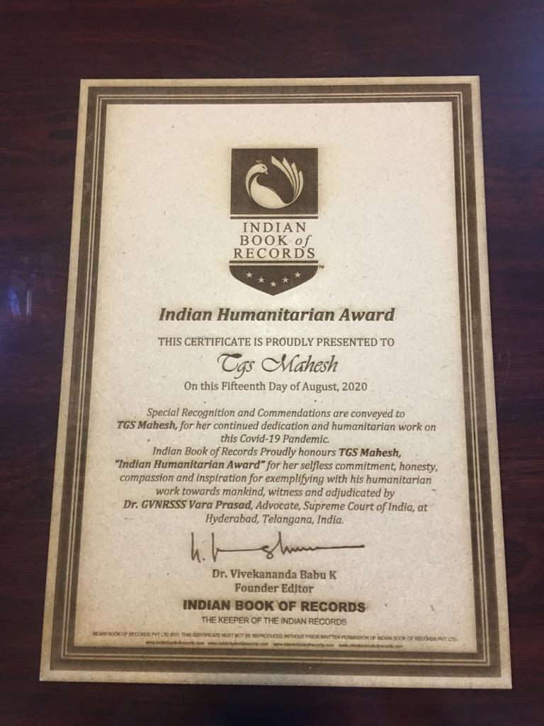 "Indian Book of Records" with the prestigious "Indian Humanitarian Award"